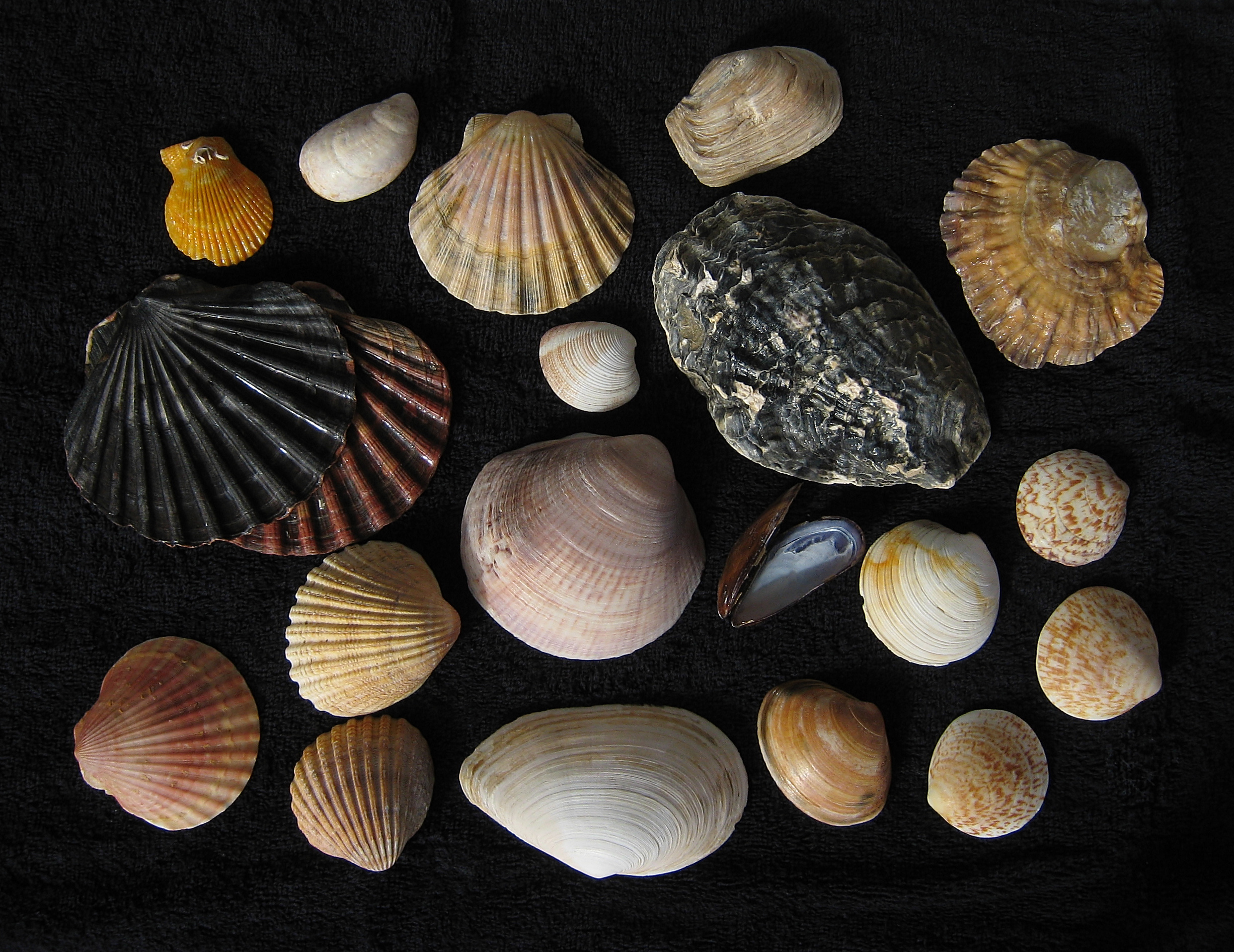 Different sea shells